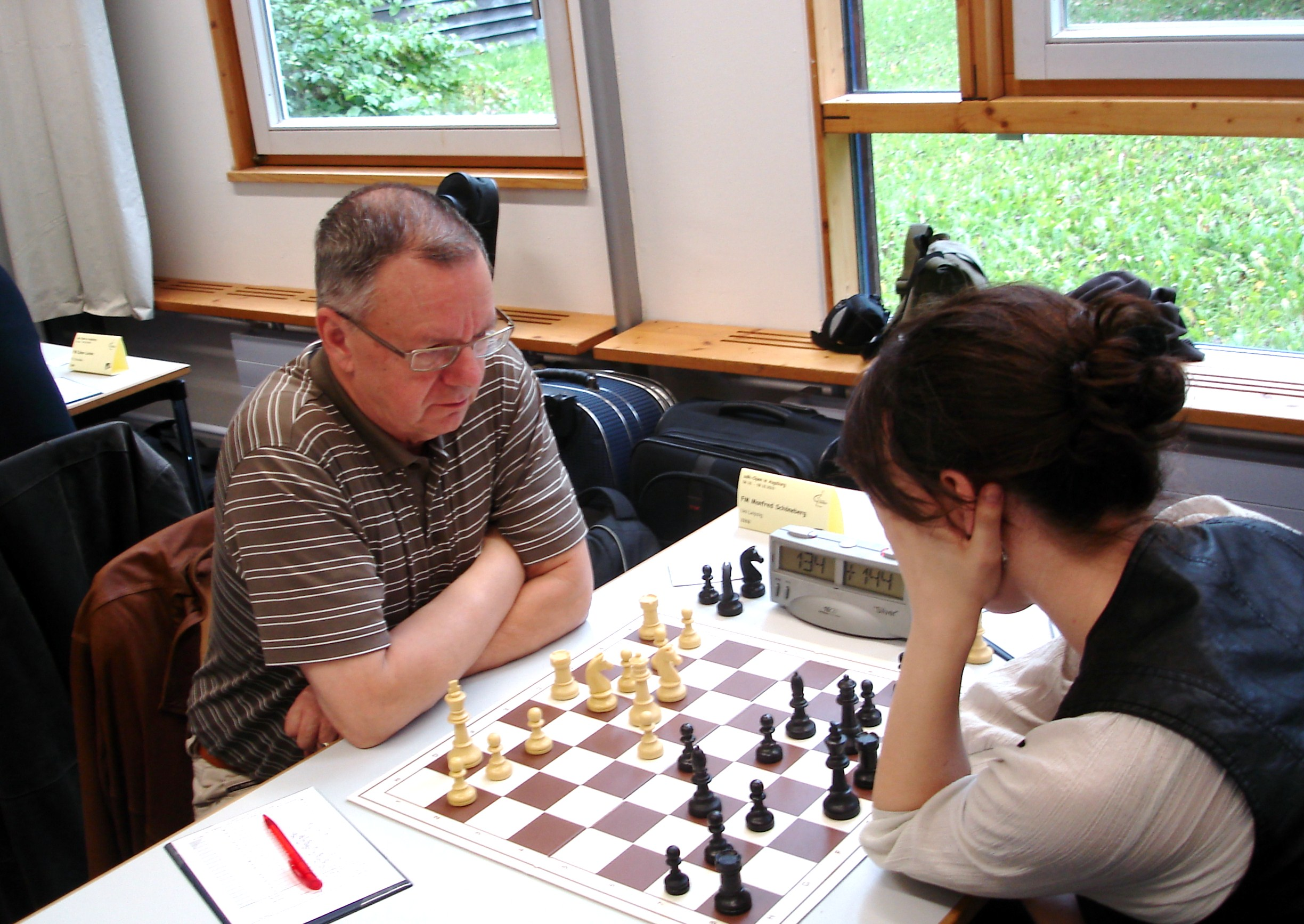 Manfred Schöneberg (born 1946), German chess player and FIDE Master, National Champion of the German Democratic Republic (East Germany) in 1972; Event: Manfred Schöneberg (Universität Leipzig) vs. Agata Sikorska (Politechnika Poznańska), International German University Team Championship, 2010, Augsburg